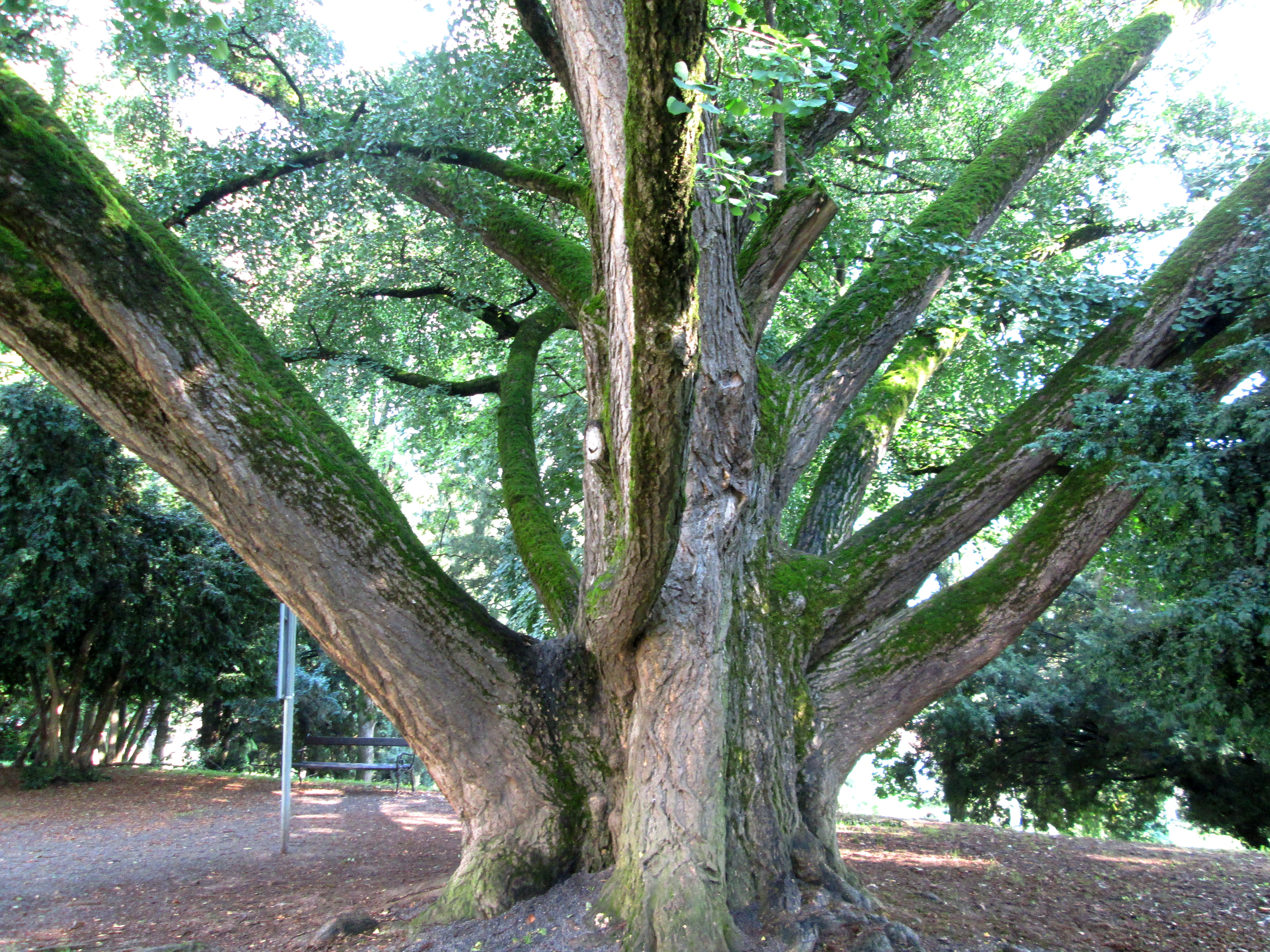 Ginkgo biloba tree, the oldest in Croatia, from 1780